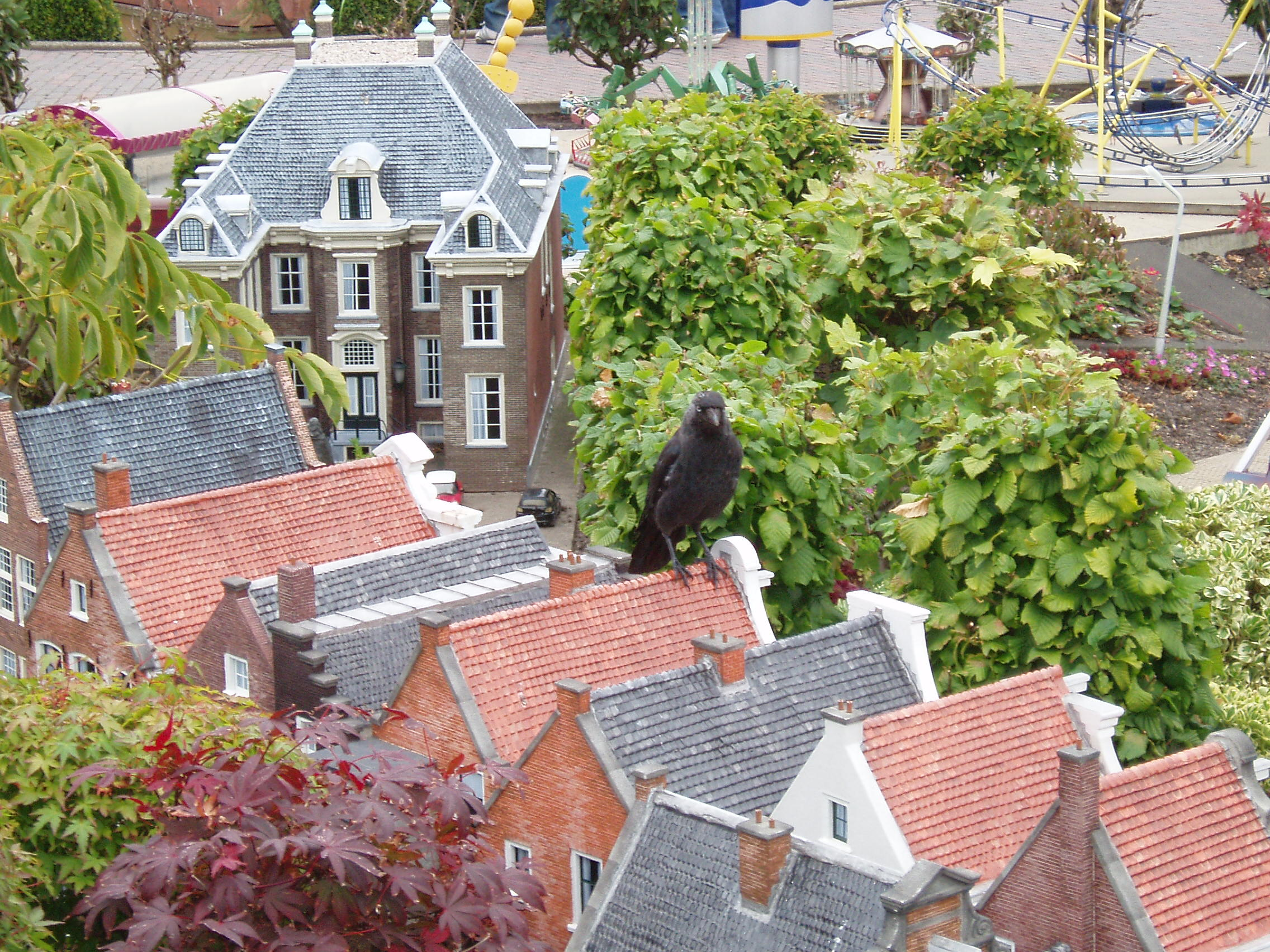 Madurodam in the Hague in the Netherlands